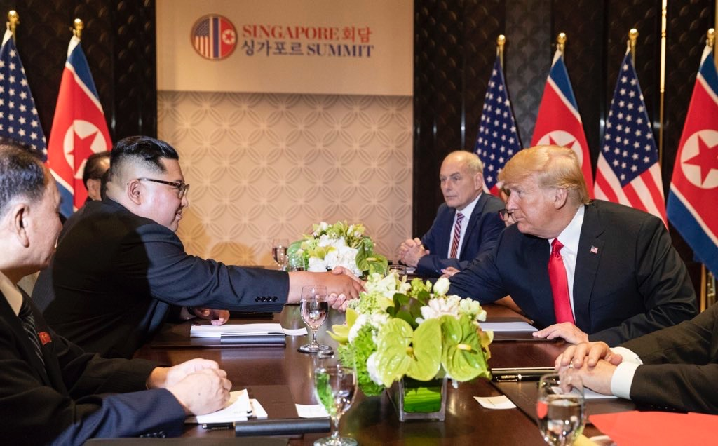 Kim and Trump shake hands across a table at the Singapore Summit.